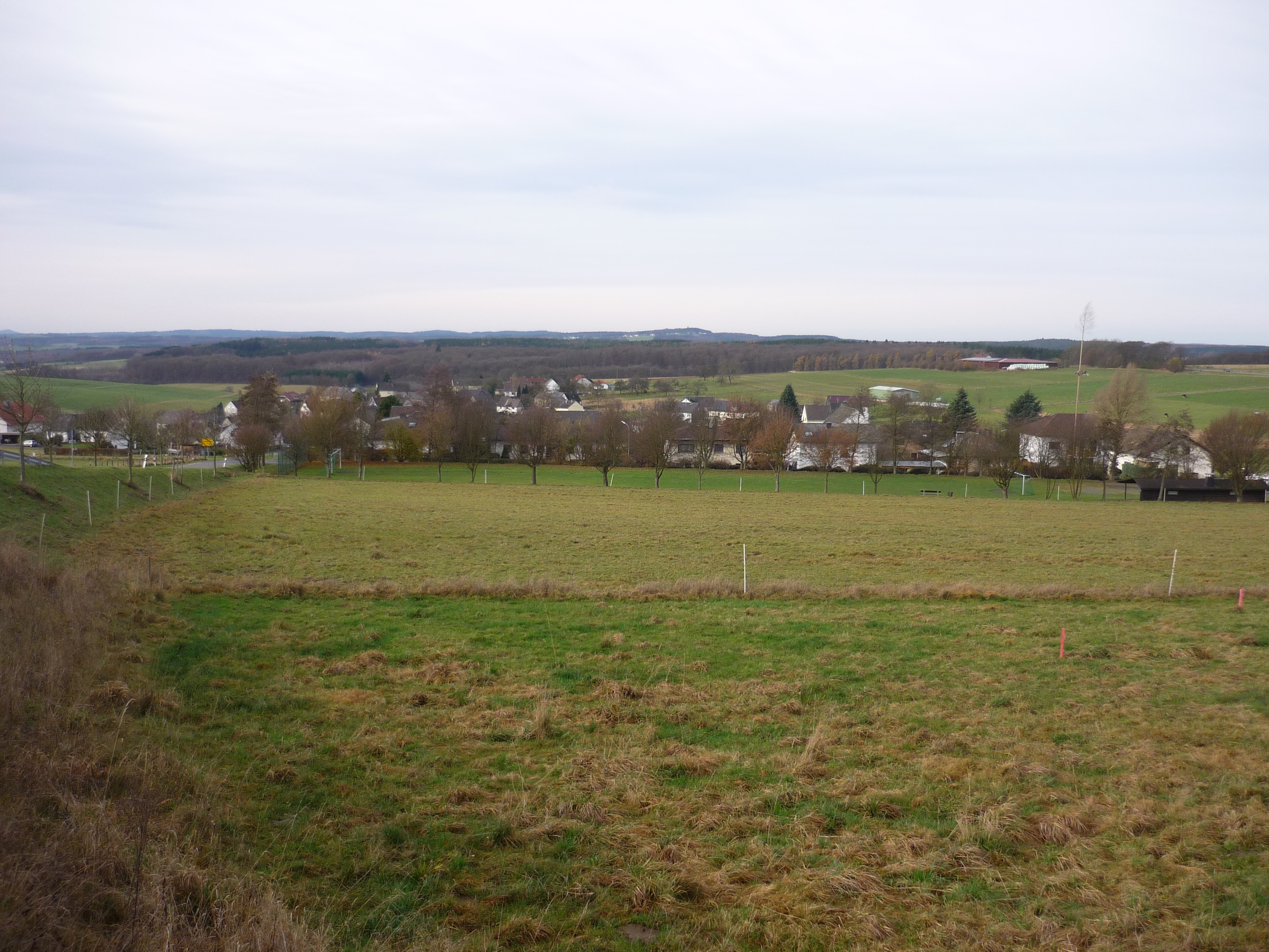 giesenhausen westerwald